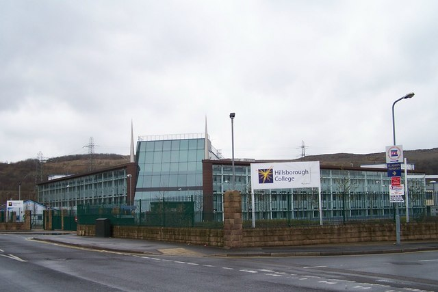 Hillsborough College. Hillsborough College ... now open for business